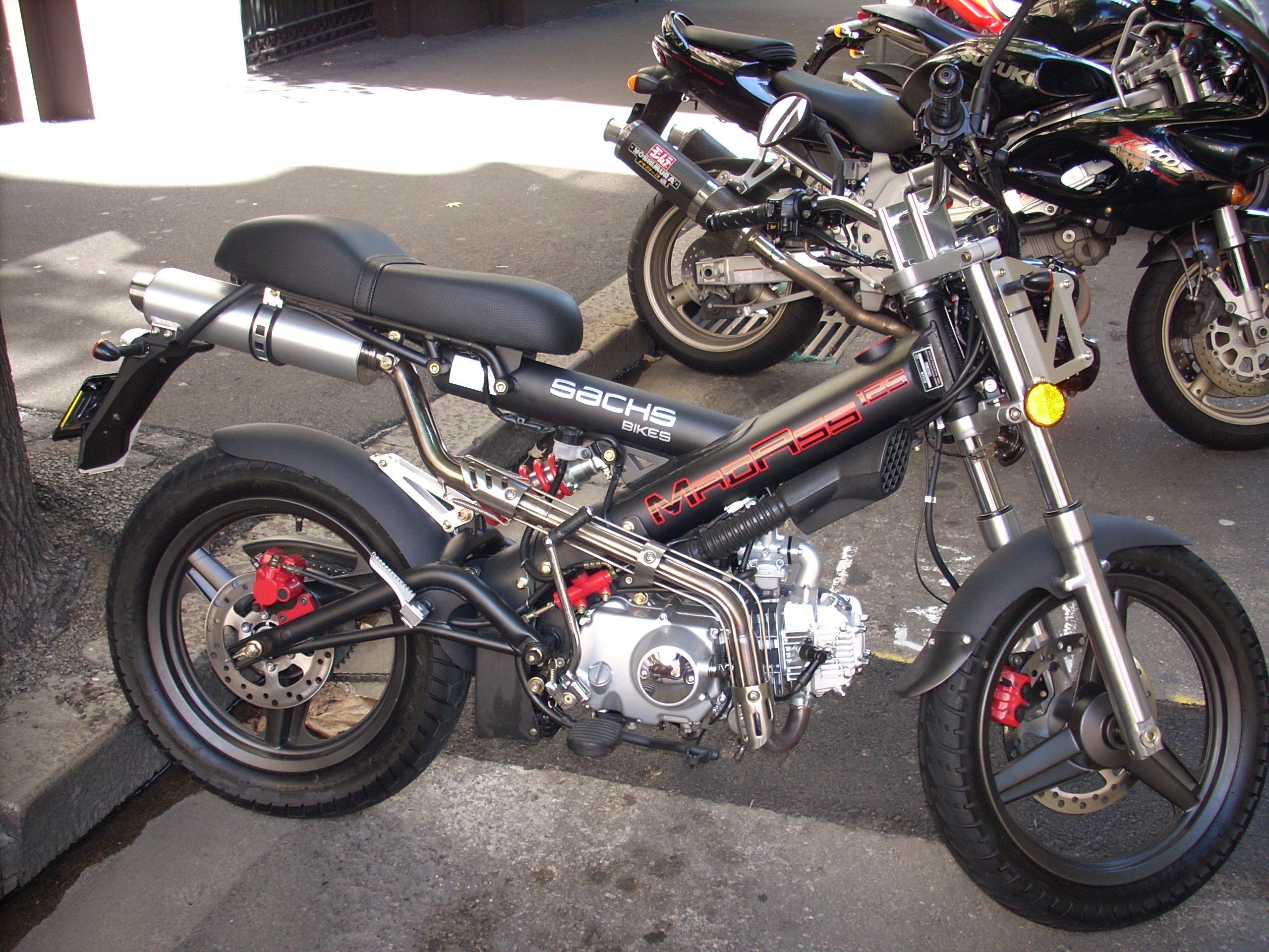 Ruben's new ride / It's _almost_ a motorcycle... ;-)